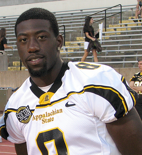 Brian Quick, wide receiver for Appalachian State, at Fan Fest 2011.